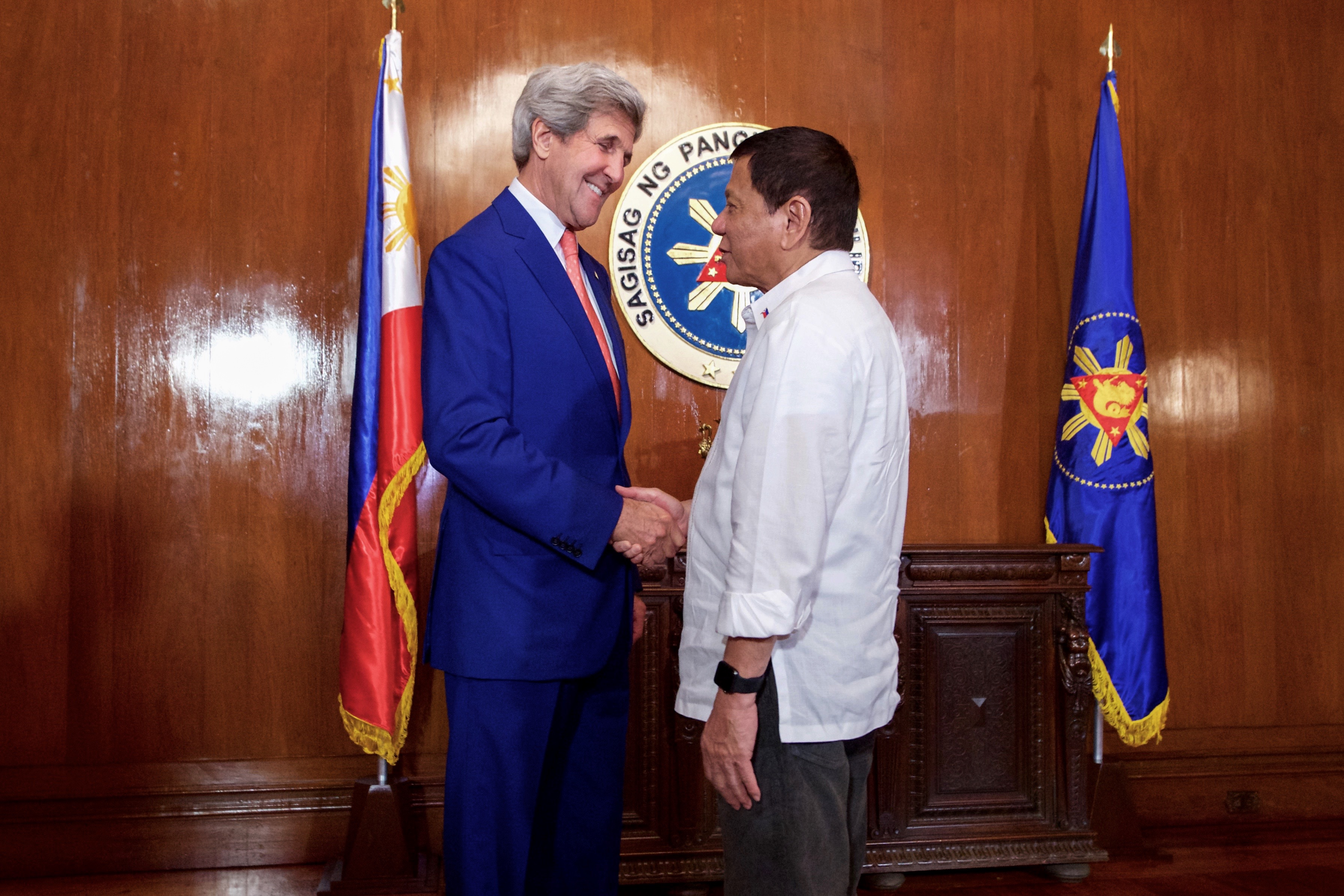 U.S. Secretary of State John Kerry shakes hands with Philippines President Rodrigo Duterte on July 27, 2016, in the Malacañang Palace in Manila, Philippines, before the two held a working lunch. [State Department Photo/Public Domain]